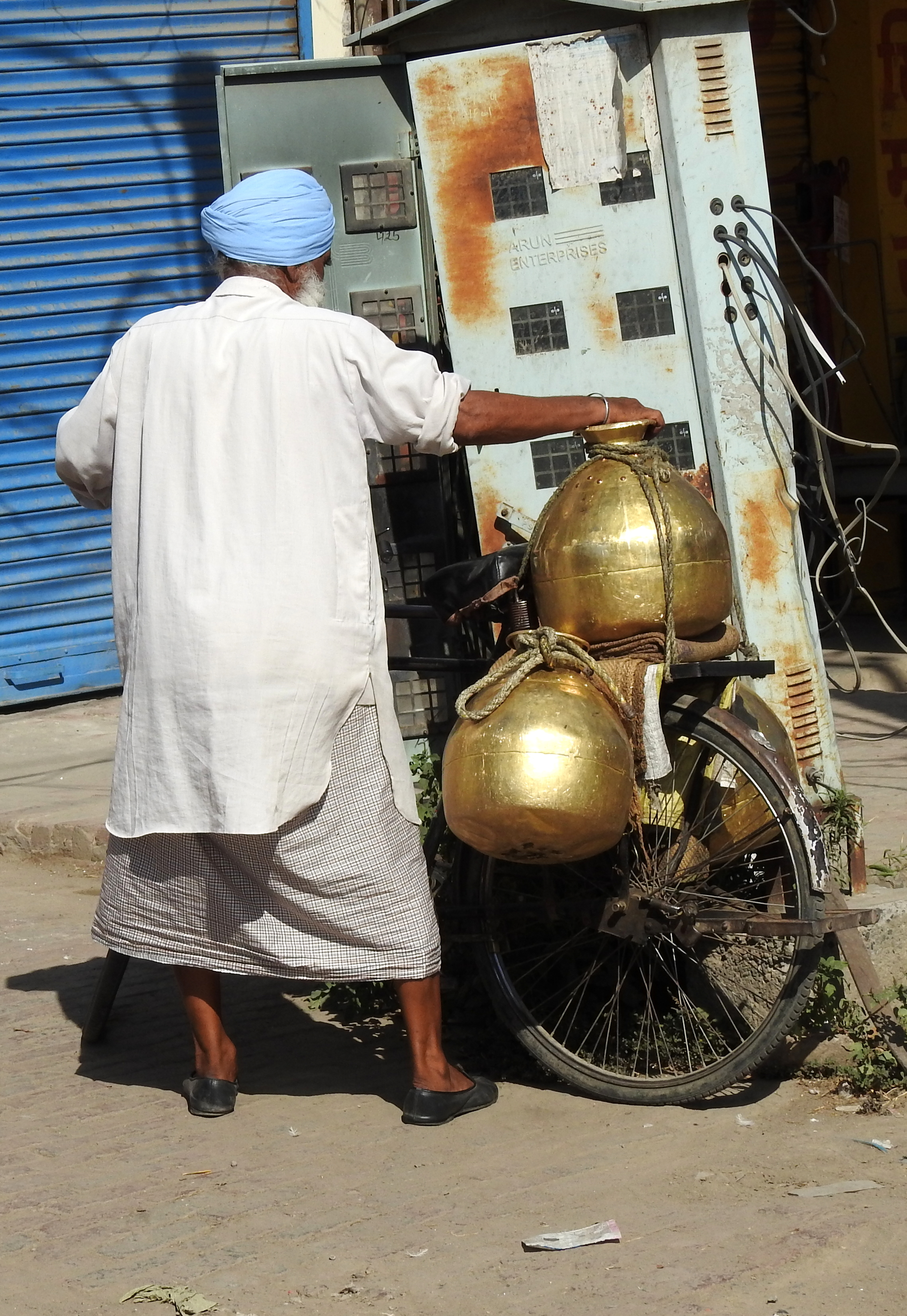 Milk venders used to collect milk in typical traditional brass containers known as Gagar in Majha Region of Punjab which include Amritsar ,Gurdaspur and Tarantaran .The image clicked in Amritsar in June 2019.